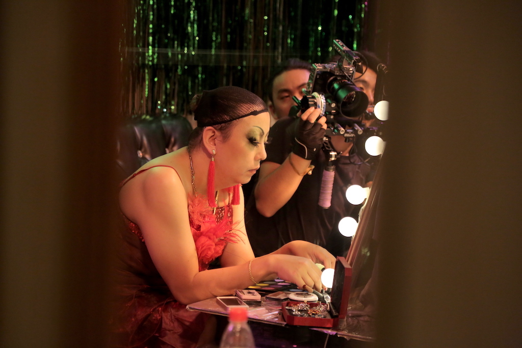 Sunken Plum (Dir. Roberto F. Canuto & Xu Xiaoxi), Trilogy Invisible Chengdu. Behind the Scene picture with actor Gu Xiang